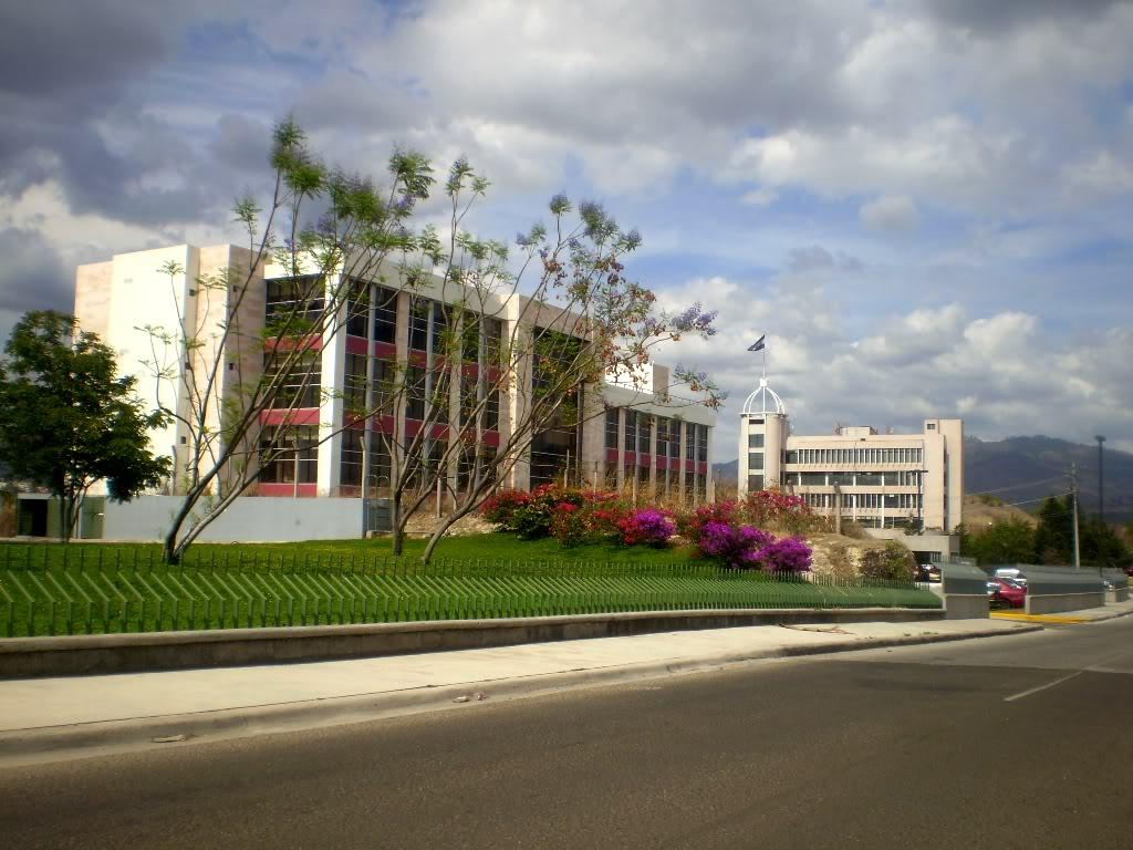 Government Civic Center complex buildings — between Armed Forces Blvd and Kuwait Blvd, in the Las Brisas neighborhood; Tegucigalpa, Honduras. Supreme Court of Justice (left) and Ministry of Foreign Affairs (right).